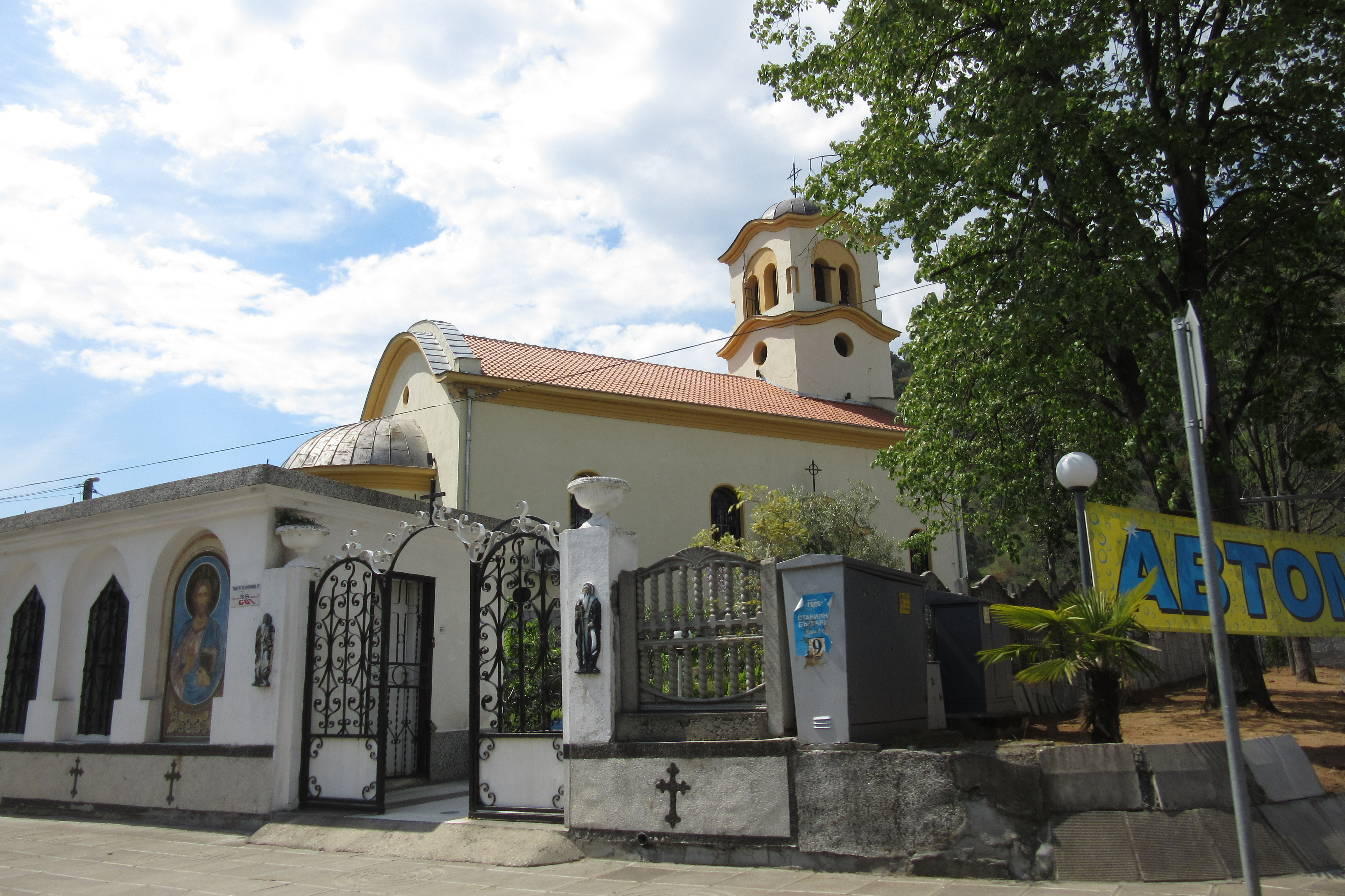 Kresna Church "Saint John of Rila"